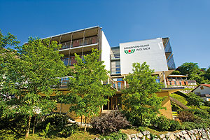 Parkinson-Klinik Wolfach